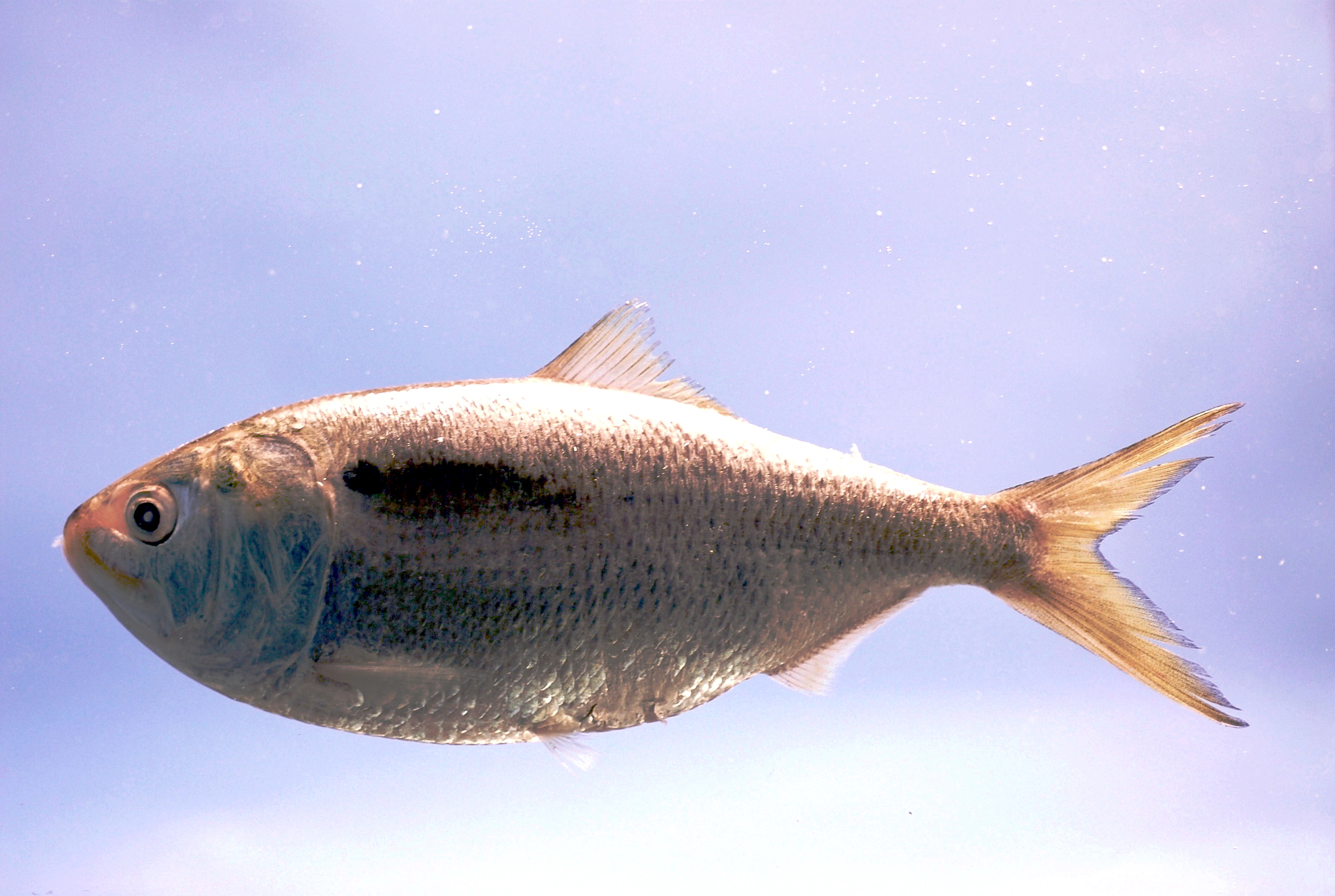 Gulf menhaden ( Brevoortia patronus ). Gulf of Mexico.